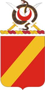 US 4th Field Artillery Regiment Coat of Arms. Contents 1 Blazon 2 Symbolism 3 Licensing 4 Original upload log Blazon Shield: Gules, a bend sinister Or. Crest: On a wreath of the colors Or and Gules, two kampilans in saltire Argent, hilted Or charged with a crescent Gules a rattlesnake with four rattles entwined with the weapons Proper. Motto: NULLI VESTIGIA RETRORSUM (No Step Backward). Symbolism The shield is scarlet for Artillery. The bend sinister, an allusion to the hybrid mule, is indicative of the regiment's former service as pack artillery. Crest: The rattlesnake, a device on the arms of Mexico, refers to the Punitive Expeditions into Mexico. The kampilan and crescent commemorate the services of the regiment against the Moros and in Vera Cruz. Obtained from US Army Institute of Heraldry at . Image and text at